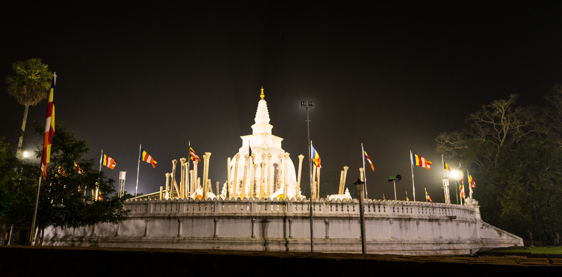 Thuparamaya is the first Buddhist temple in Sri Lanka. Located in the sacred area of Mahamewna park, the Thuparamaya Stupa is the earliest Dagoba to be constructed in the island, dating back to the reign of King Devanampiya Tissa.